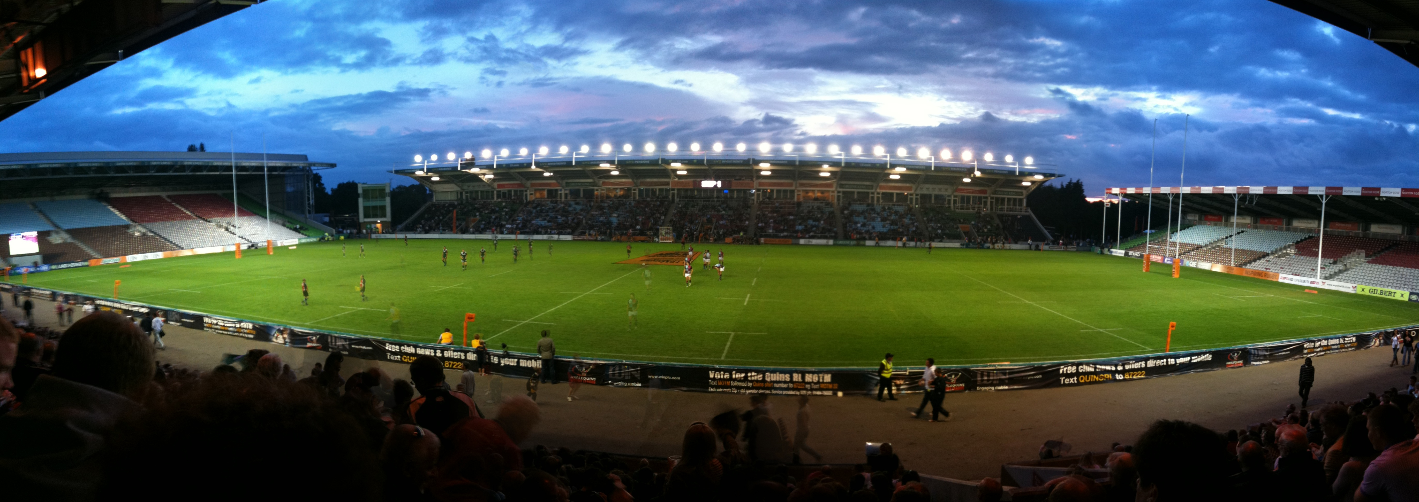 Panoramic view of the Stoop, Twickenham, London, England